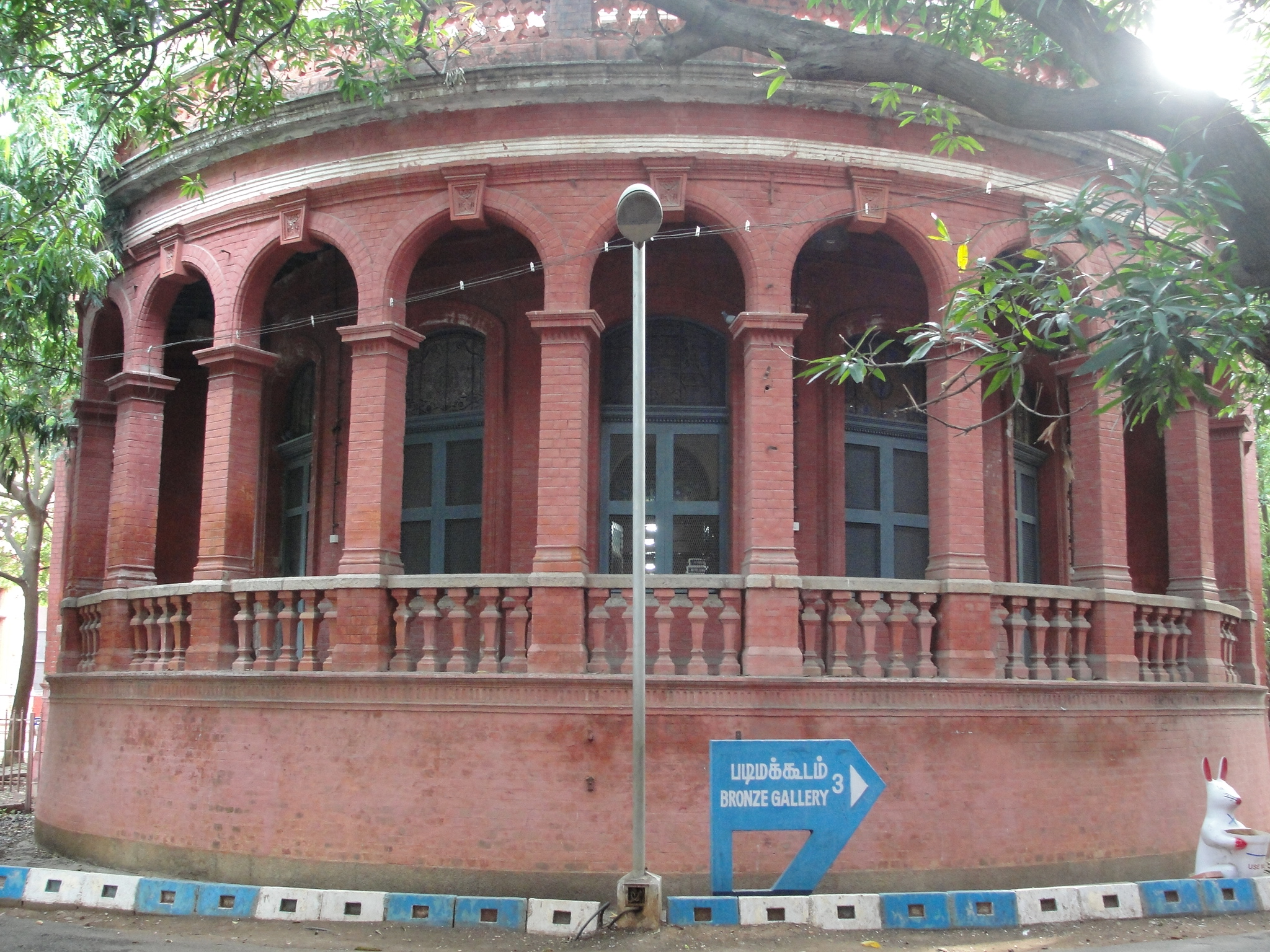 Building of Chennai Egmore Museum